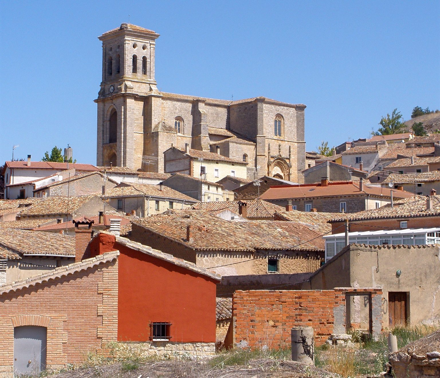 Vista de Pampliega, con la iglesia de San Pedro al fondo. Provincia de Burgos, España